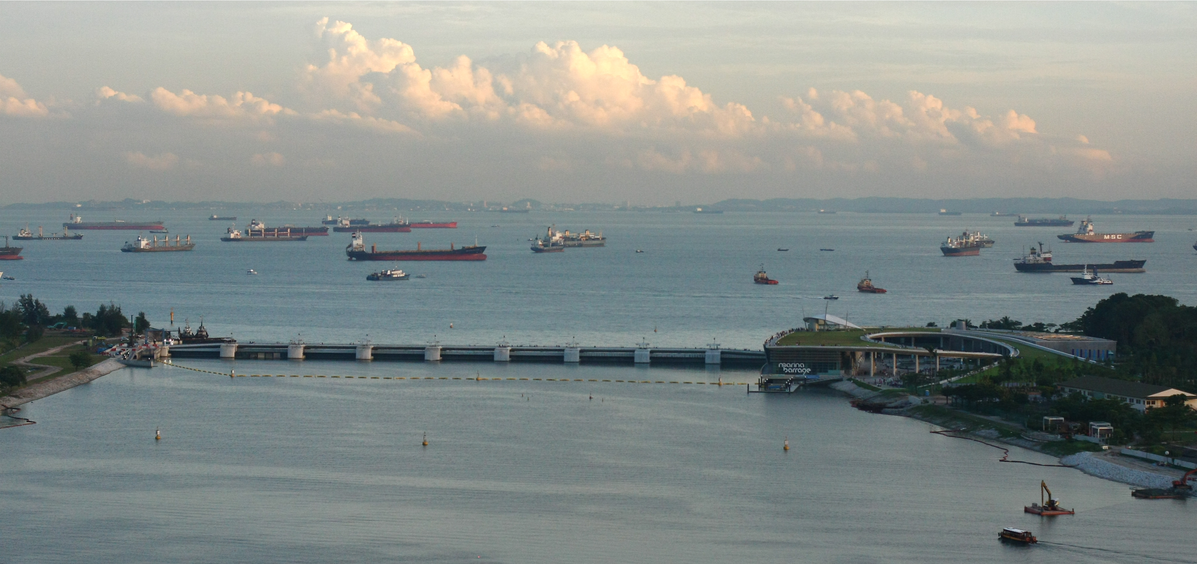 The Marina Barrage, which turned the Singapore River into a reservoir. Behind the Barrage in the open sea are queues of ships lining up for entry into Jurong Port, and behind the ships is the Indonesian island of Batam.